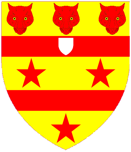 Shield of arms of Anne Phyllis Jessop